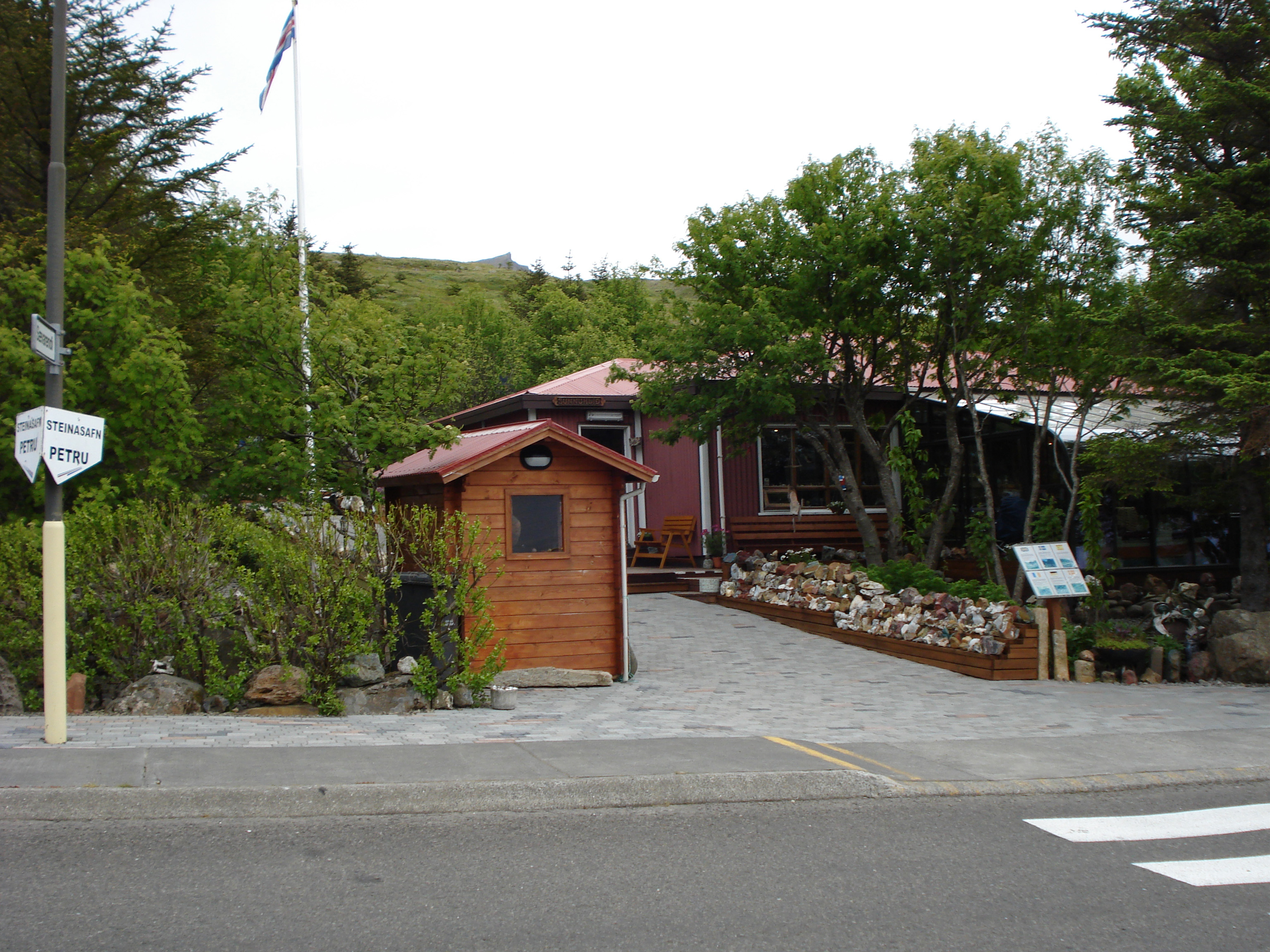 Stone Colletion of Petra Sveinsdóttir